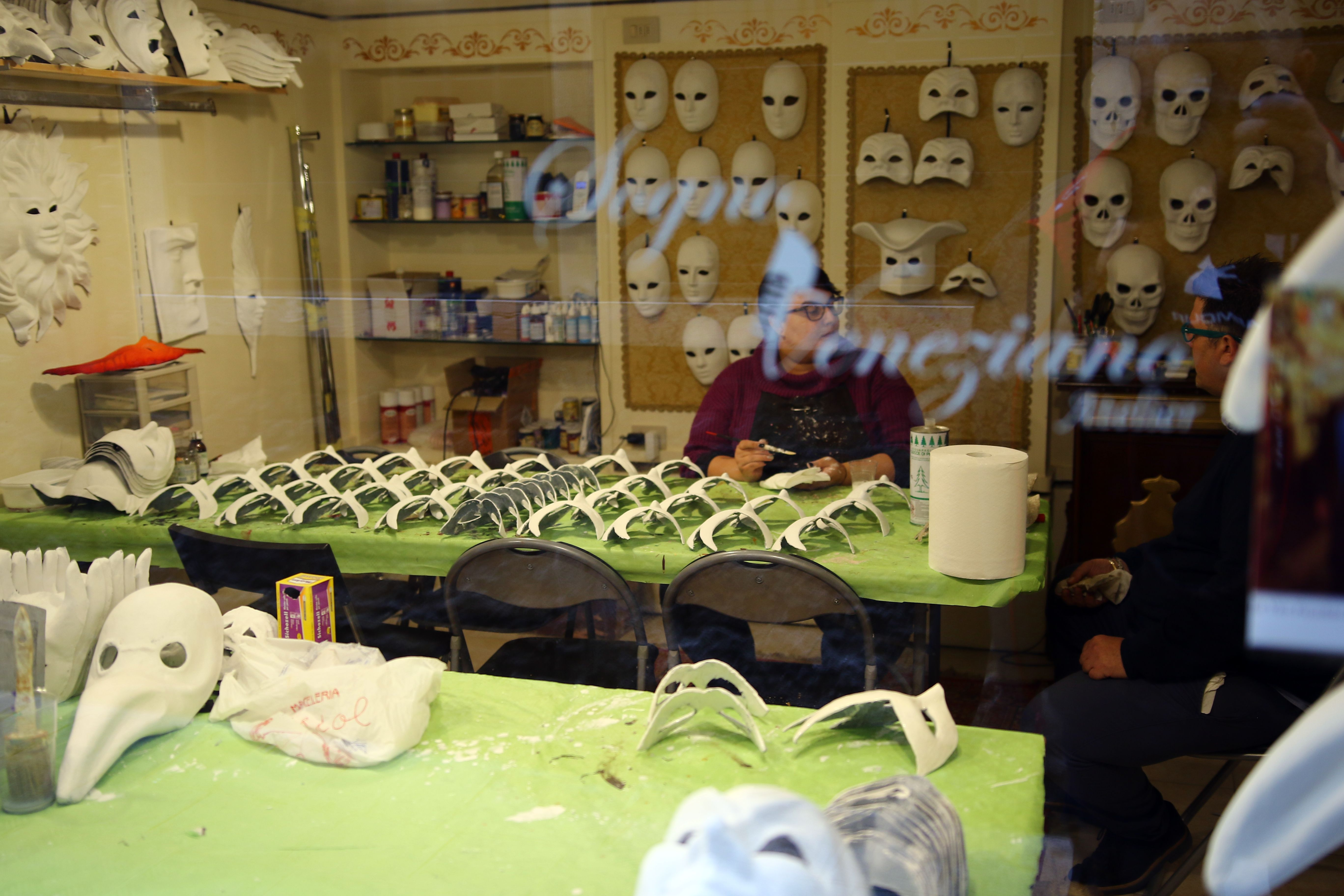 Traditional Venetian Paper Mache Masks Workshop, Venice, Italy. This photo has been taken in the country: Italy